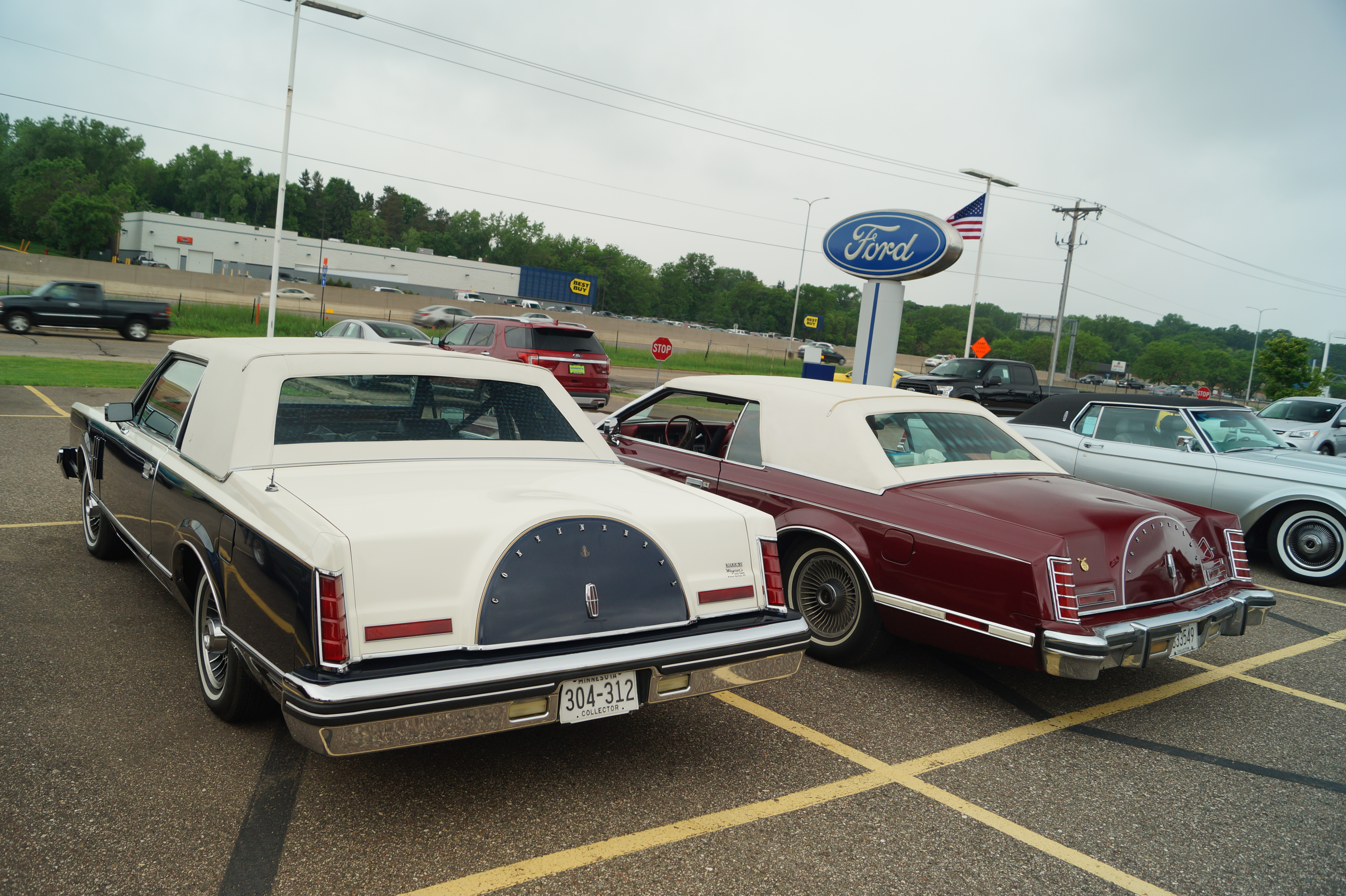 Lincoln & Continental Owners' Club North Star Region 8th Annual Classic Lincoln Car Show Morrie's Minnetonka Ford-Lincoln Minnetonka, Minnesota Click here for more car pictures at my Flickr site.